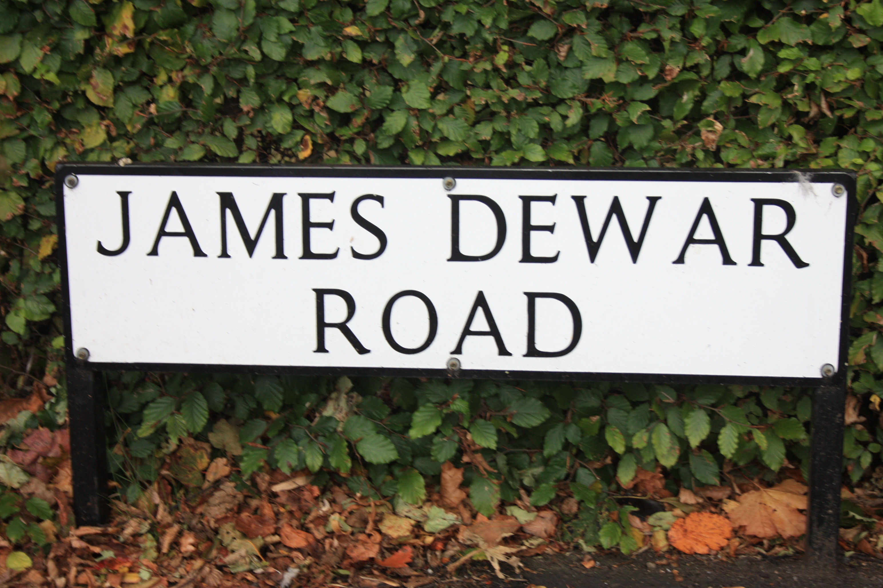 A street sign in the Kings Buildings complex in Edinburgh in memory of James Dewar